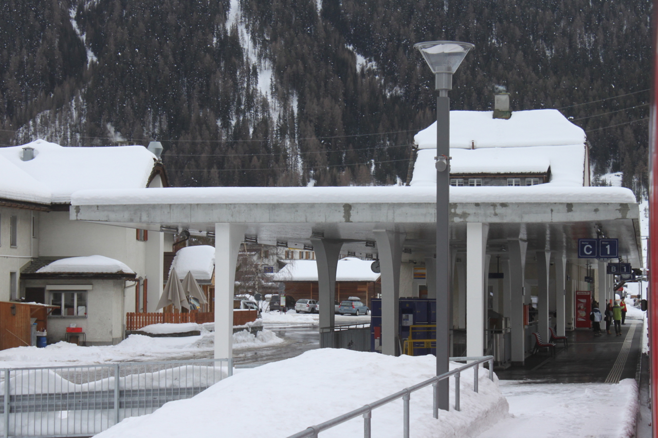 Zernez train station.